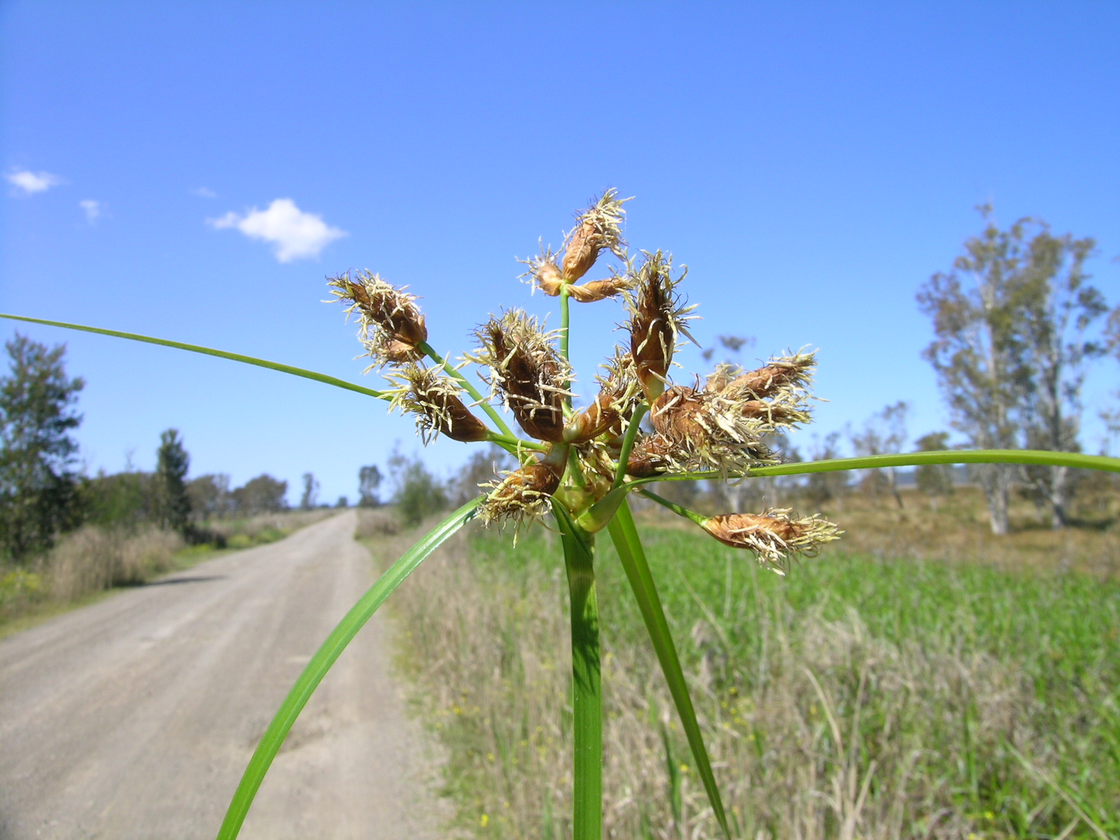 Native warm-season perennial erect sedge 1-2 m tall and with long creeping rhizomes and woody tubers. Stems are 5-10 mm diameter and 3-sided. Leaves are to 12mm wide. Flowerheads have 6-9 branches, each with 1-6 brown spikelets to 2.5cm long. Flowers from spring to summer. Widespread in shallow water of creek edges and open swamps. Will grow out of water in higher rainfall areas. Palatable when young and leafy, but not when mature. Provides relatively low-digestibility feed, but can have high protein levels. Appears to be susceptible to continuous grazing and trampling. Often forms dense stands outside grazed paddocks, which are used as shelter by many native waterbirds, mammals, etc. Generally will not spread into deeper water. Don’t graze below the waterline in autumn.